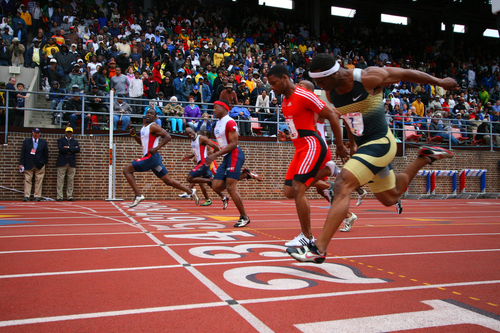 100m dash: Photo-finish (L to R) John Capel (4 - USA) - winner Kendel Stevens (7 - The Executives Track Club), Lee Prowell (9 - The Executives Track Club), Darvis Patton (2- USA), Mike Rodgers (1 - USA), UNK (16), and Keston Bledman (5 - Adidas). The Penn Relays at Franklin Field. 24-26 April 2008. The Penn Relays, Saturday 26 April 08. Shot for The Daily Pennsylvanian.